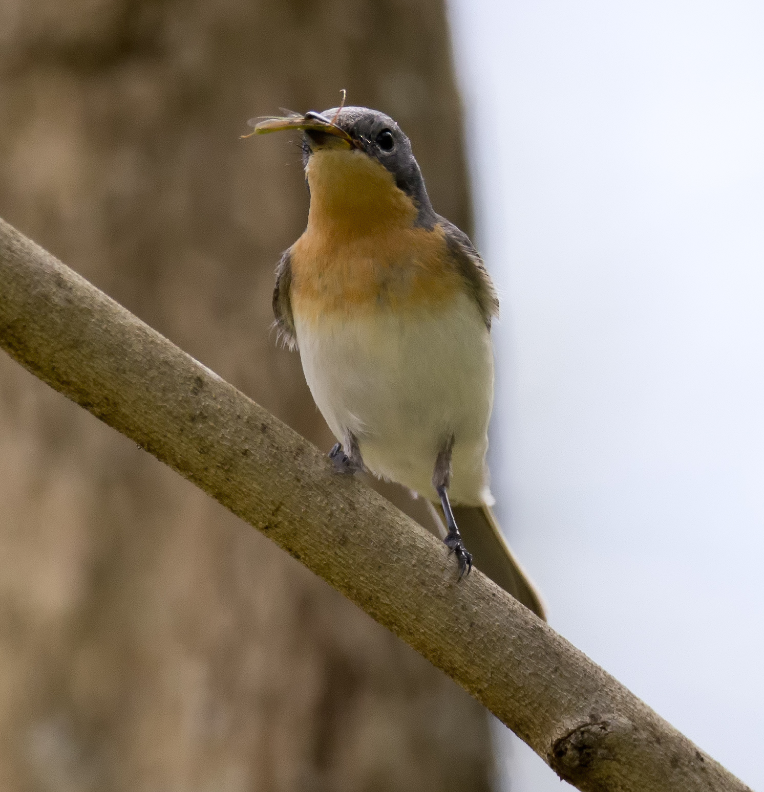 leaden flycatcher with breakfast. I had sultana bran, and wouldnt swap her